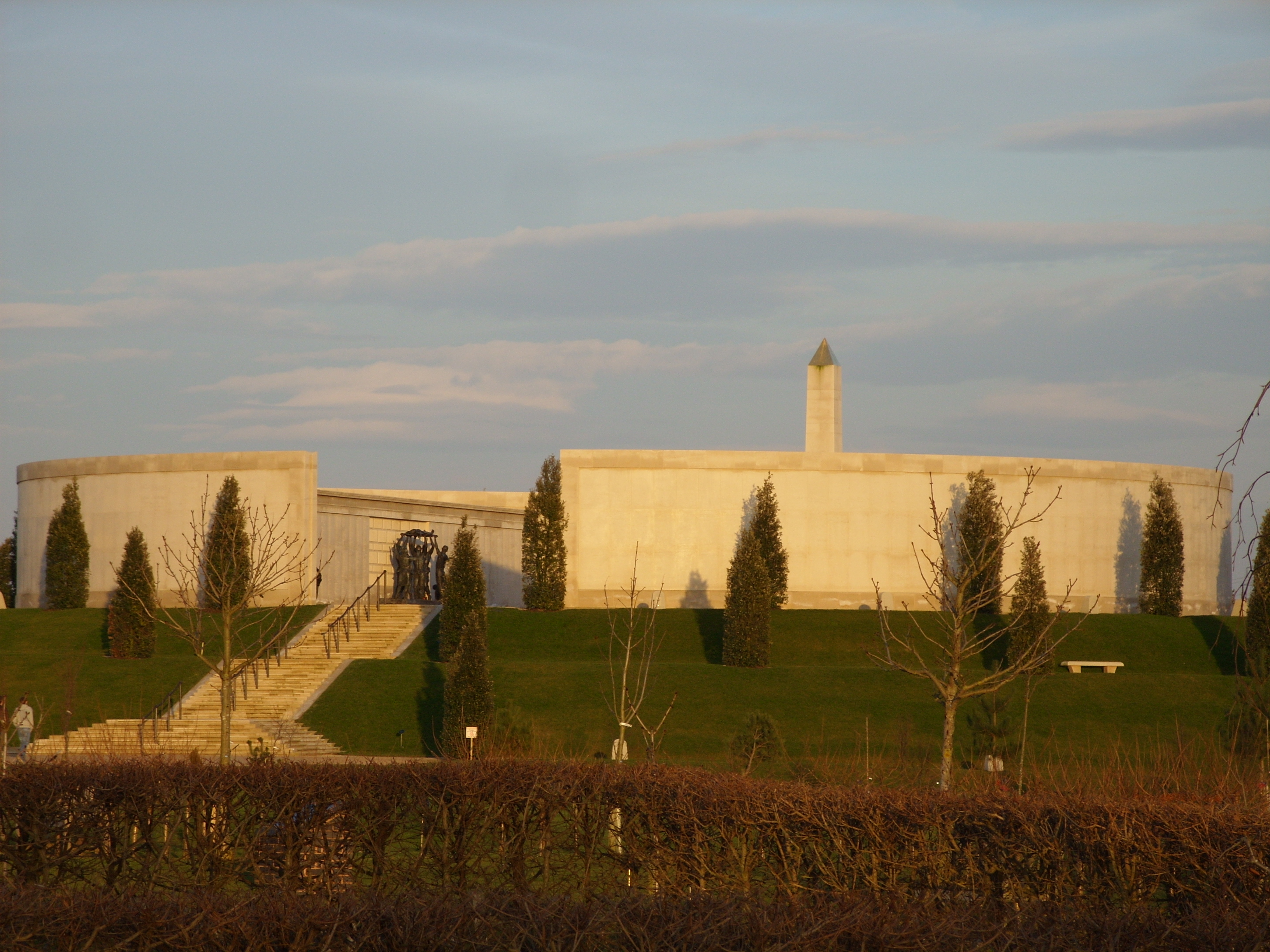 Armed Forces Memorial at the National Memorial Arboretum